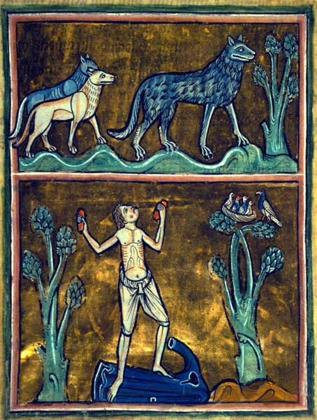 Folio 29r from a 13th century Bestiary, The Rochester Bestiary